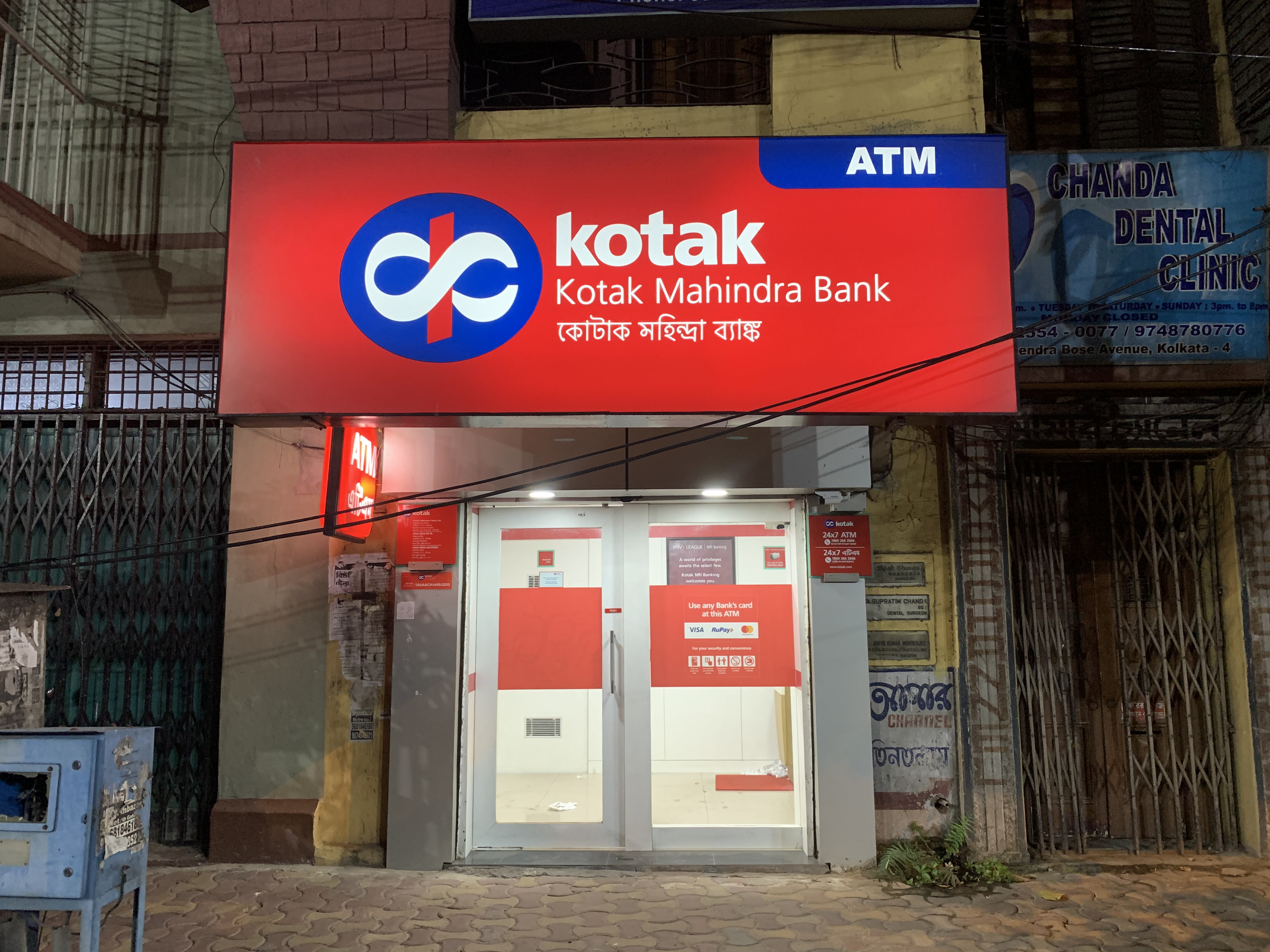 ATM of Kotak in Shyambazar during Lockdown for Corona crisis in Kolkata, West Bengal, India.